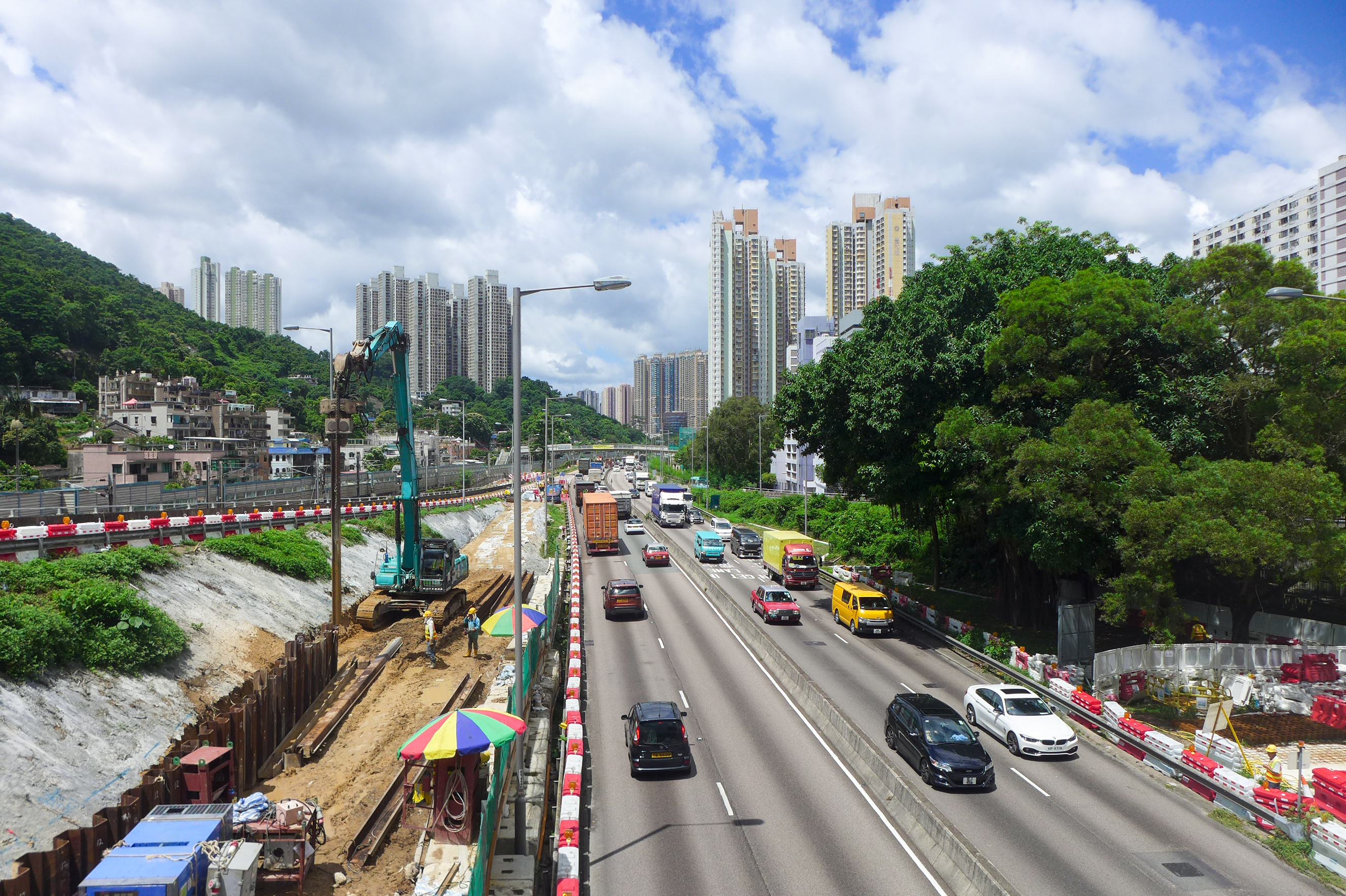 Tai Po Road Shatin Section Improvement Works